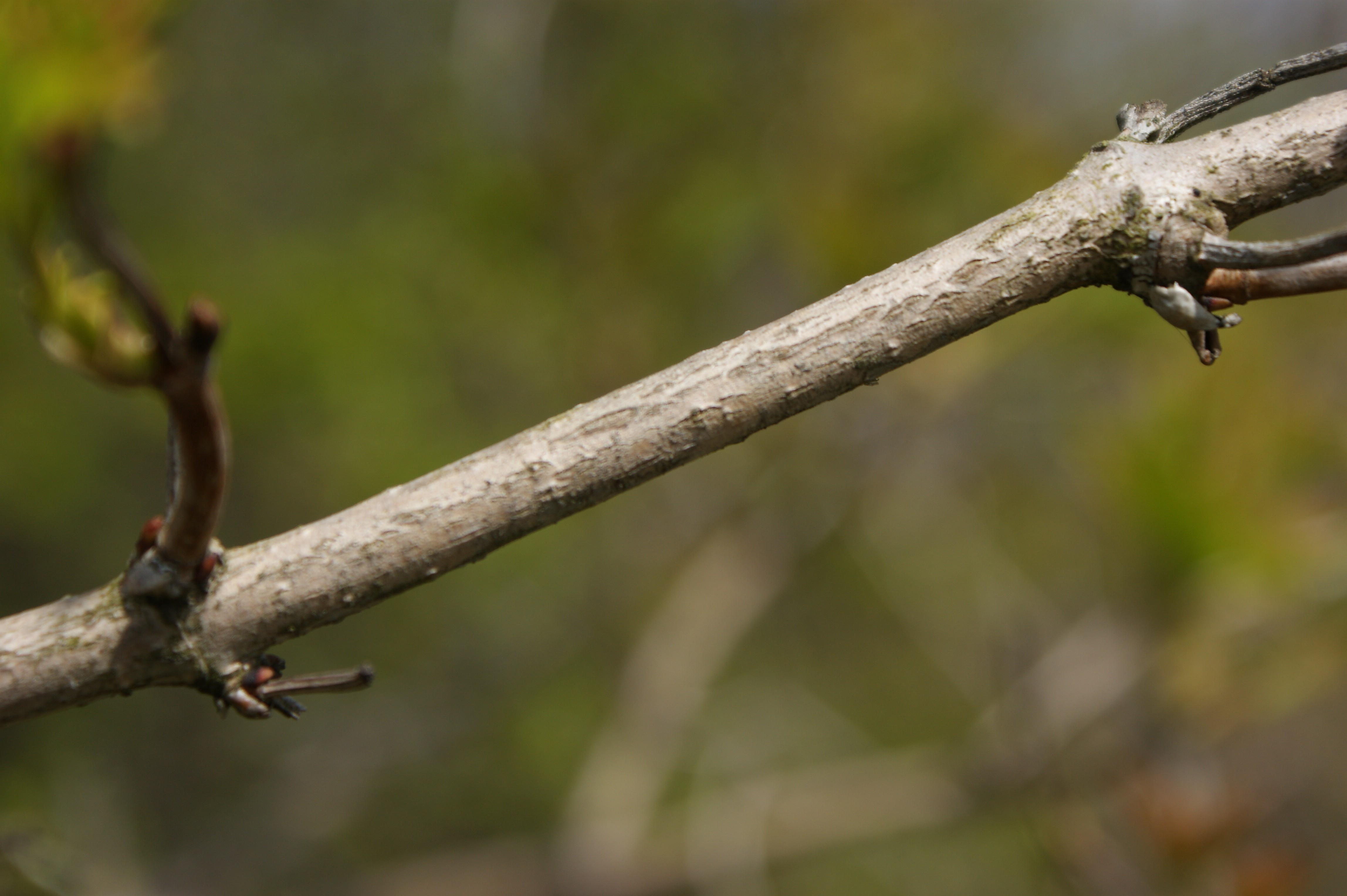 Viburnum opulus, 3 years old stem - source of Cortex Viburni